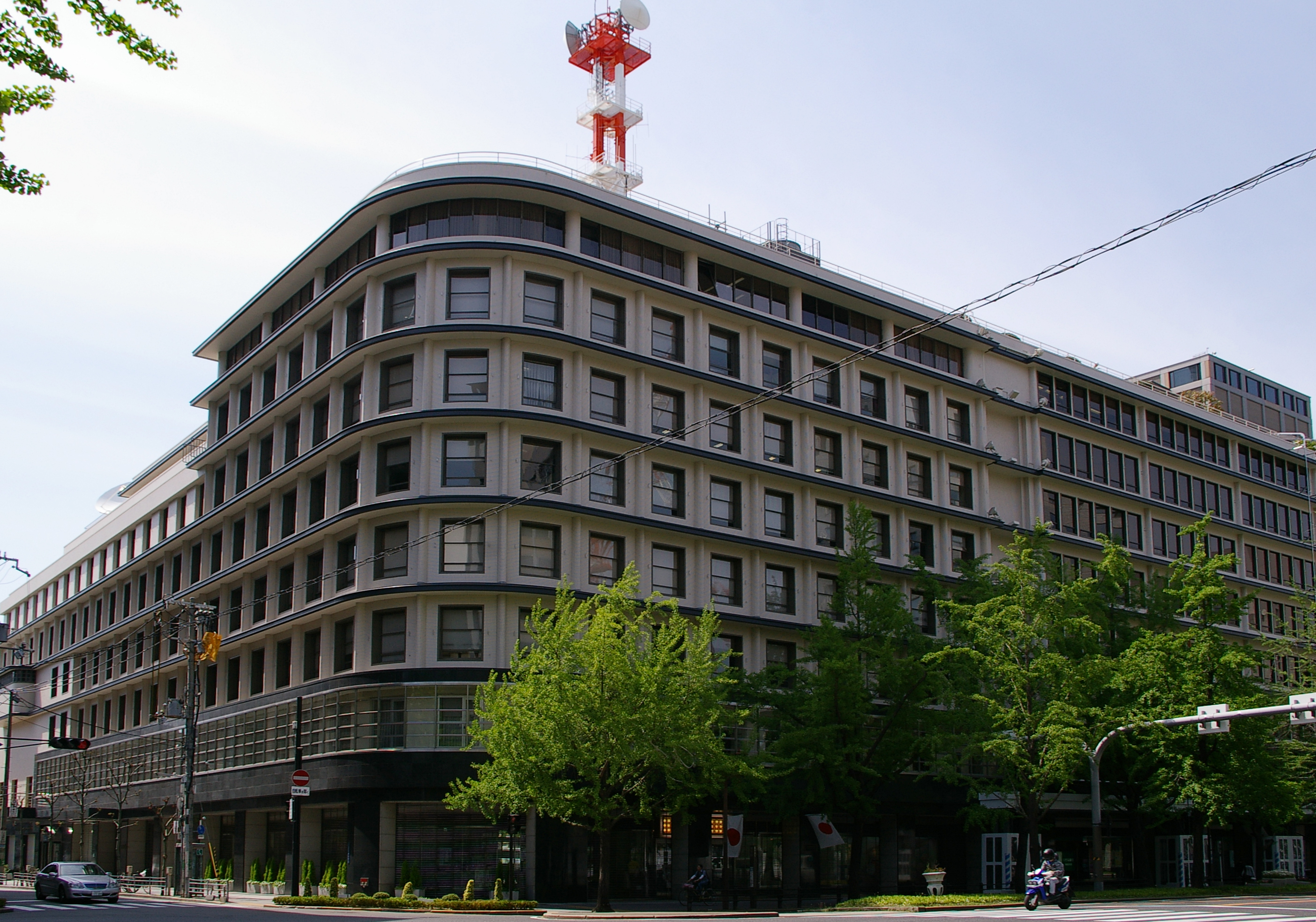 Photograph of Osaka Gas Building in Chuo-ku, Osaka, Osaka Prefecture, Japan.